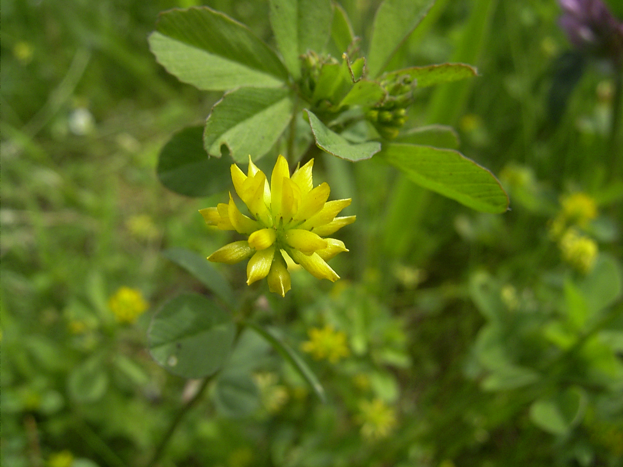 Trifolium dubium flower at industrial terrain Goudse Poort, Gouda.